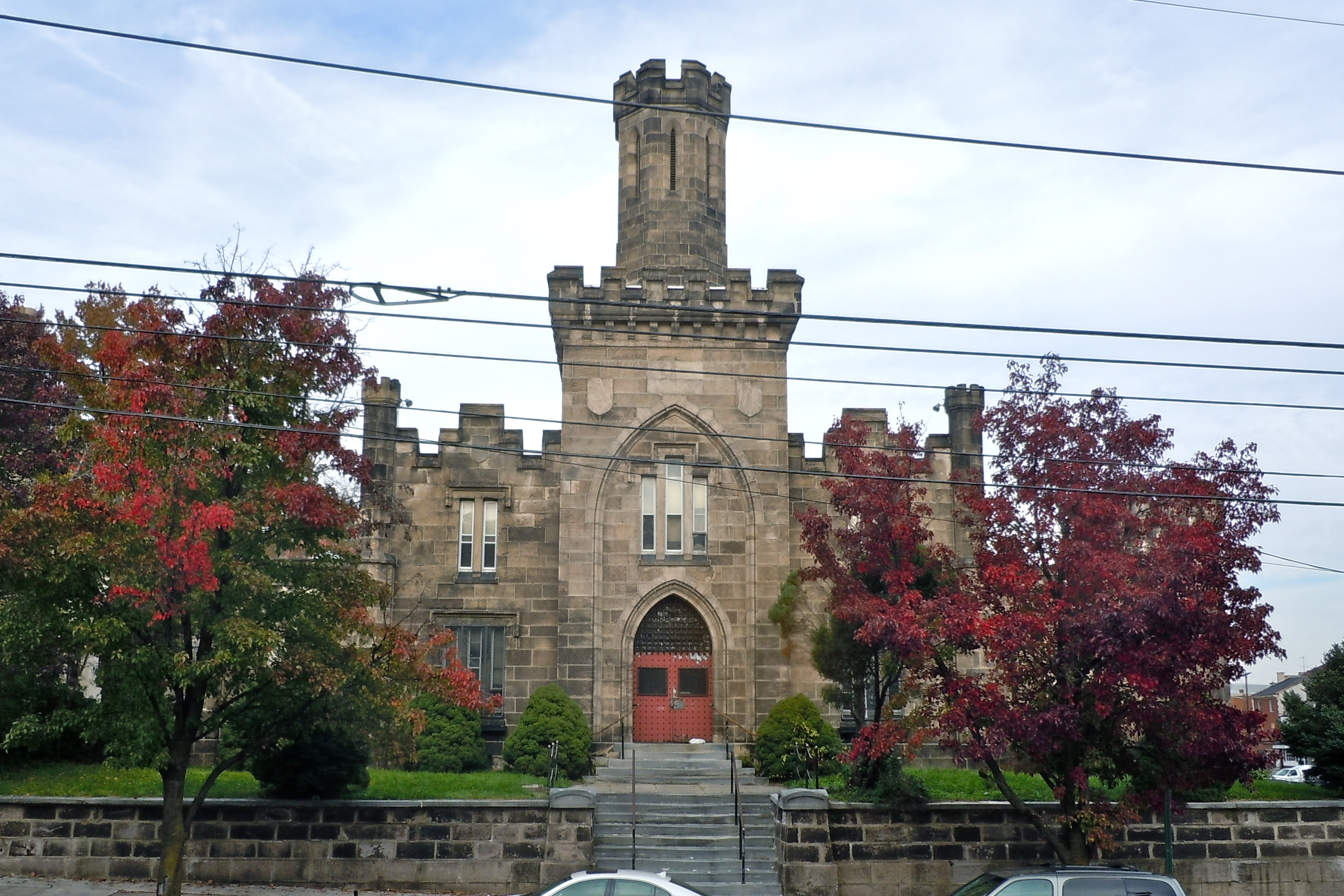 Odd castle-style building on Airy Street, Norristown, Montgomery County, Pennsylvania. Part of the Central Norristown Historic District on the NRHP since November 23, 1984. The Historic District is roughly bounded by Stoney Creek, Walnut, Lafayette, and Fornace Streets, Norristown, Montgomery County, Pennsylvania.